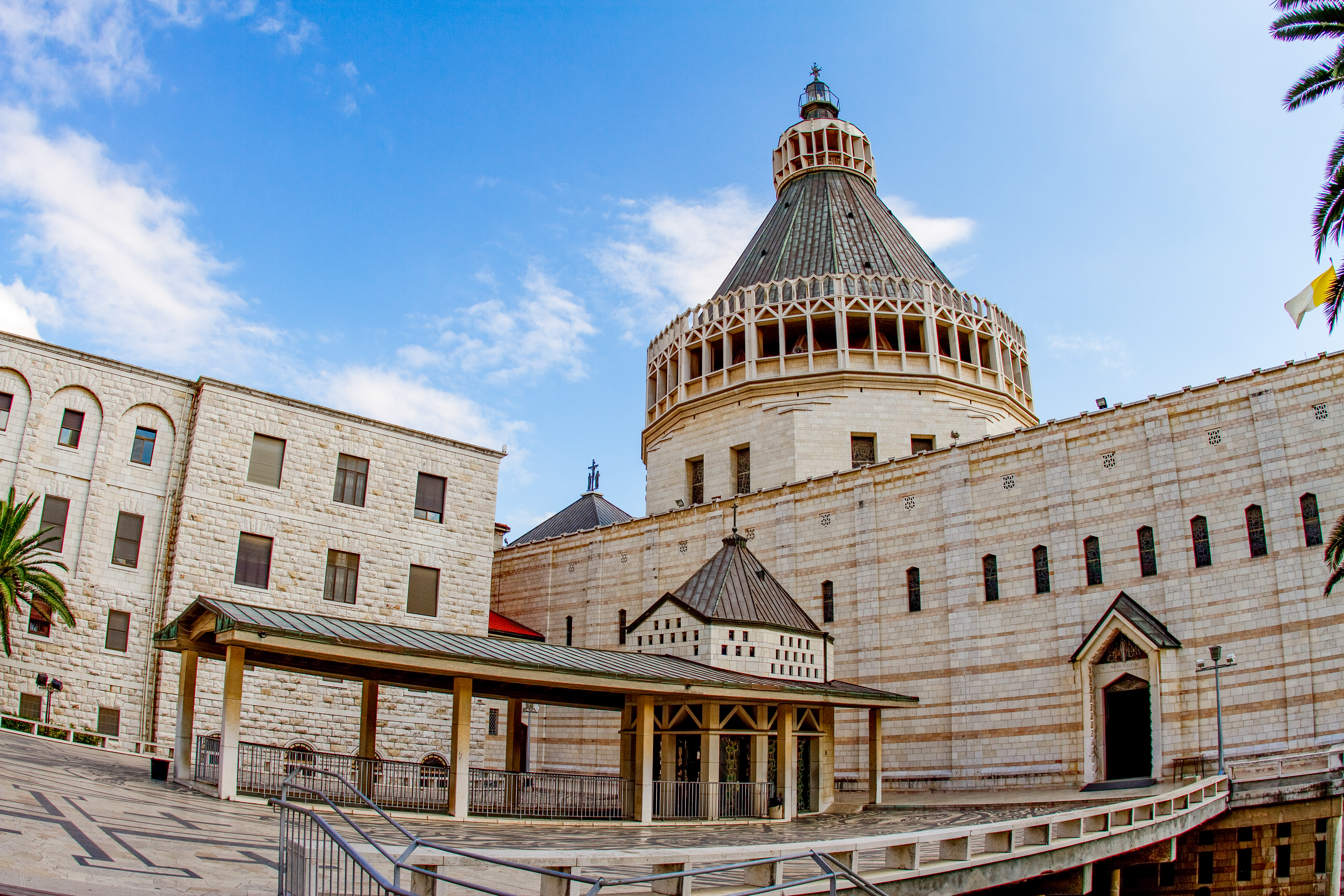 כנסיית הבשורה נצרת